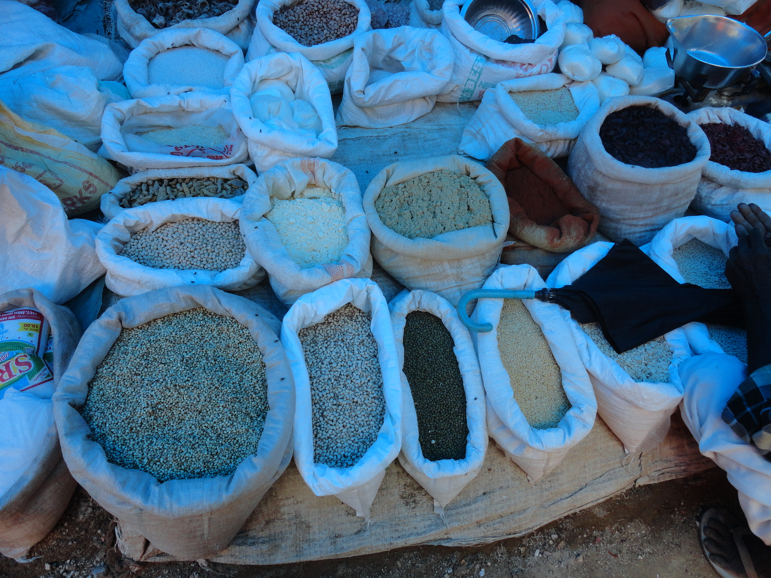 అమ్మకానికి సరుకులు. పాకాల సంతలో